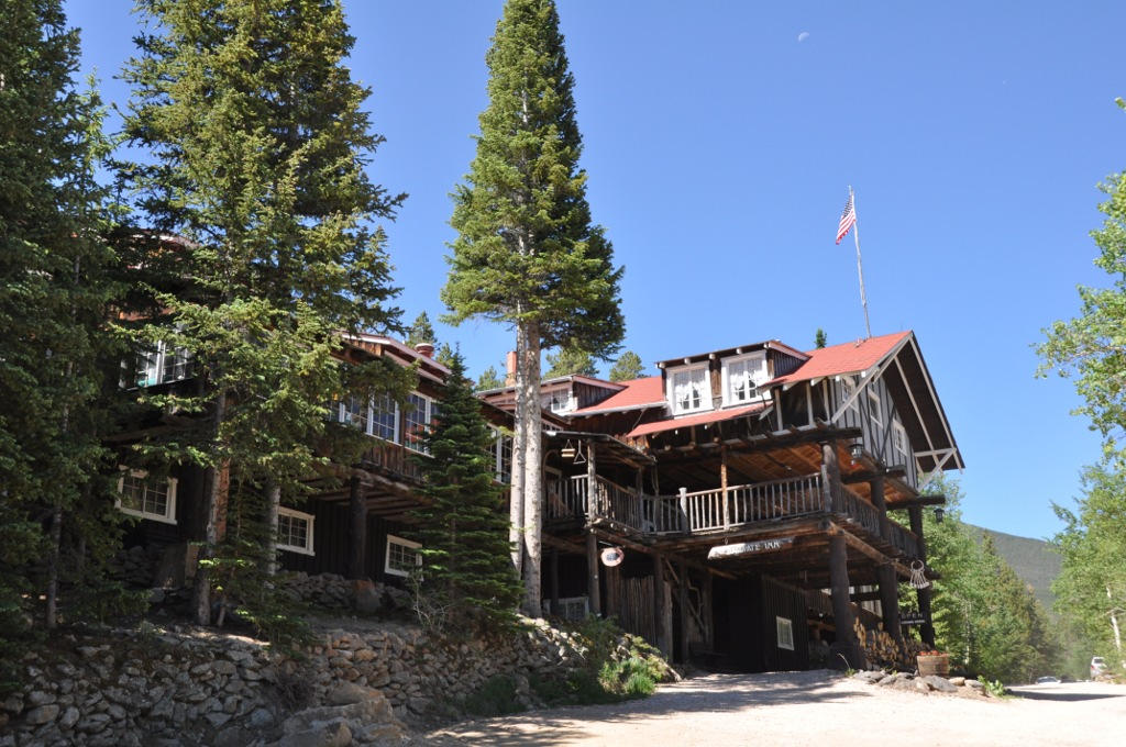 The historic Baldpate Inn outside Estes Park, Colorado.